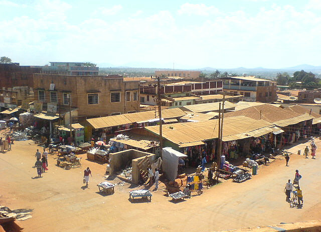 A market in Songea, Southern Tanzania